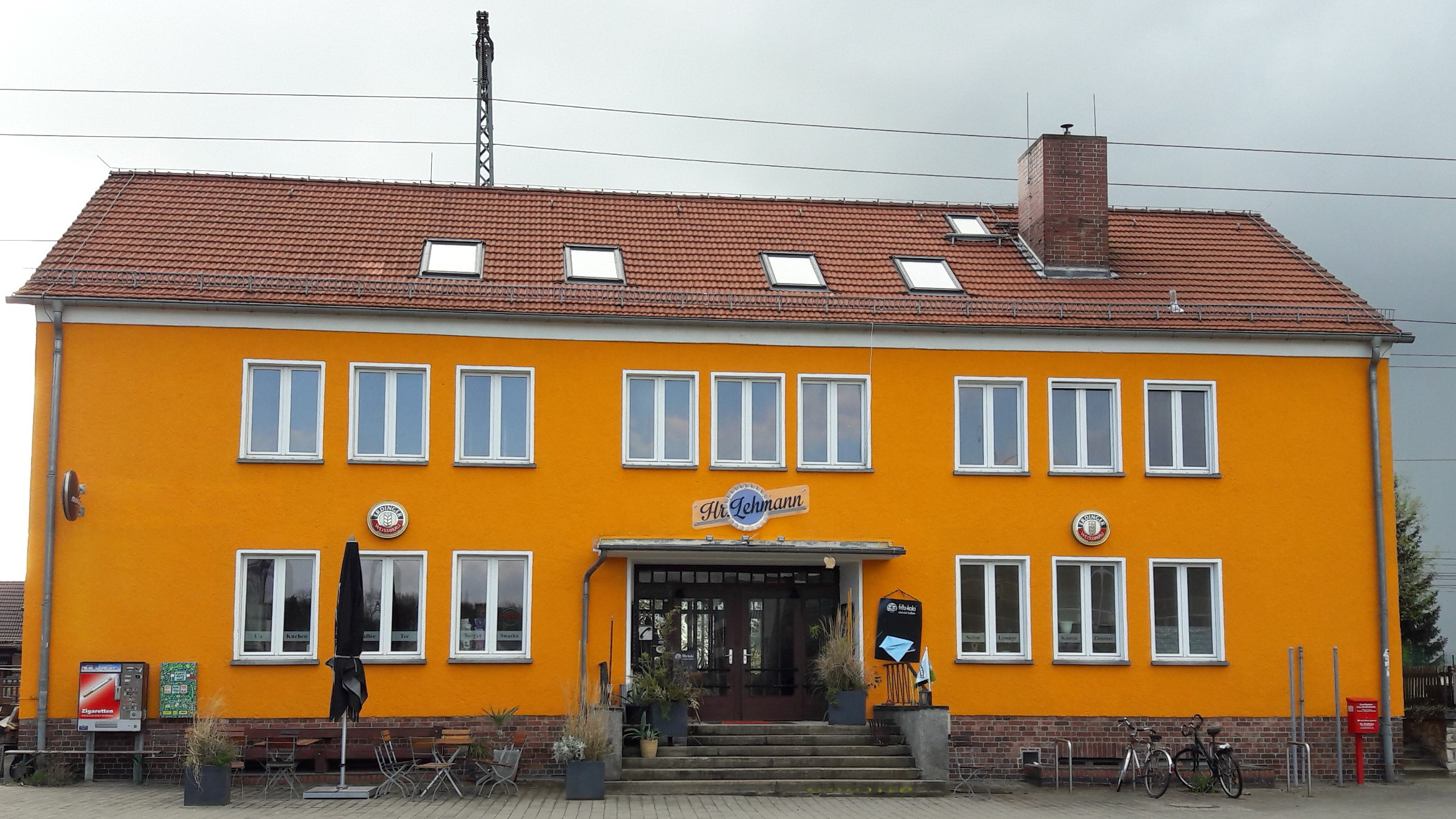 Renovated old station in Golm